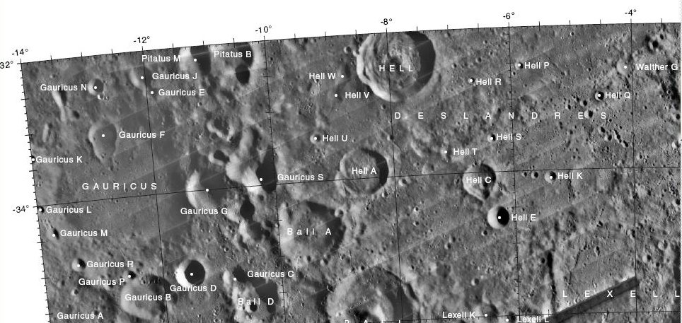 Lac 112 fragment of the lunar map showing the region around the Hell craters